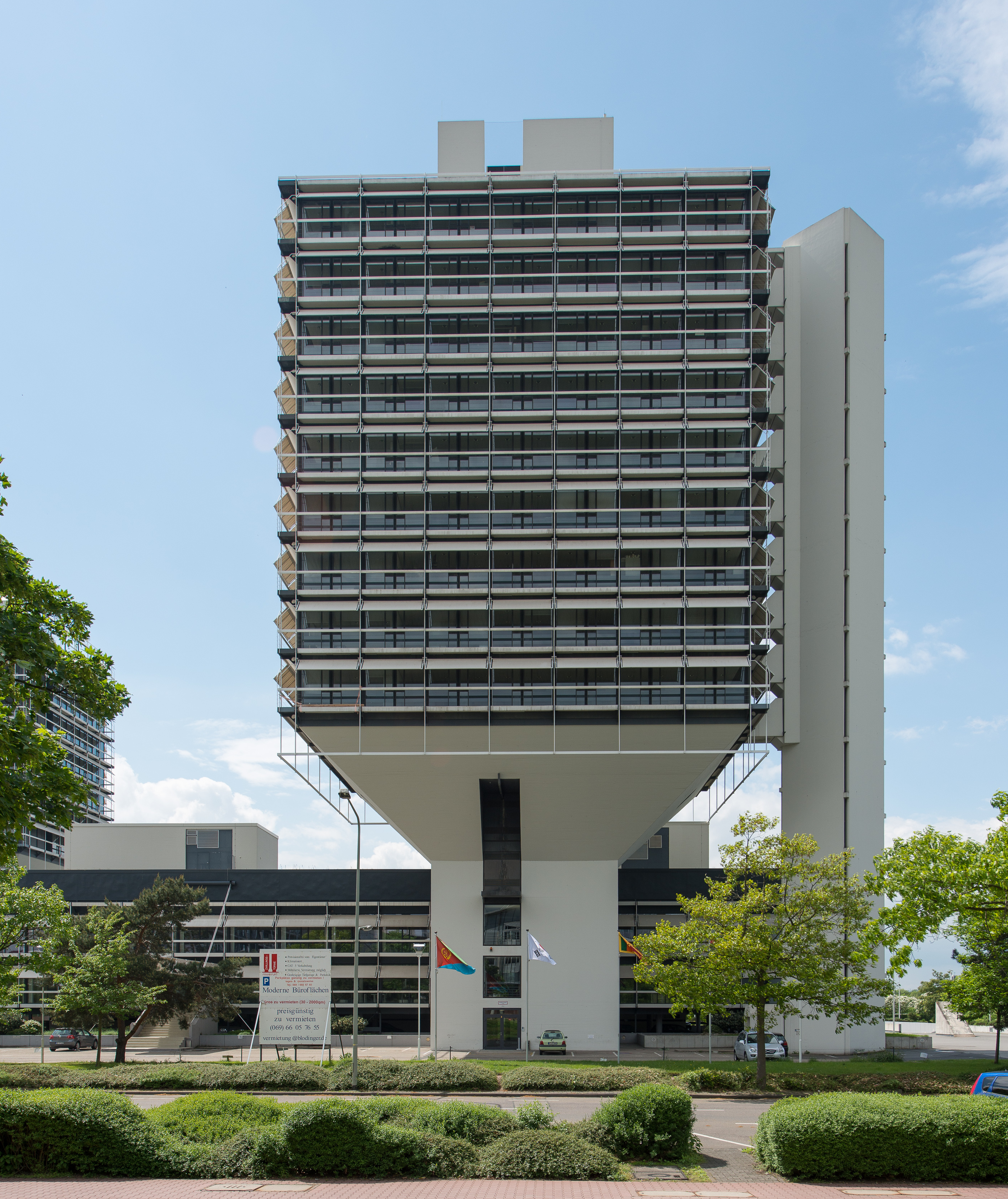 Frankfurt am Main, Lyoner Straße 34, Olivetti Tower II (North). Office building complex from 1972, as seen from East